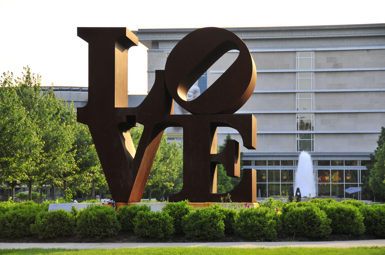 Robert Indiana famous Love Sculpture. Was a bit hard to shoot because the sun was right in front of me. More about the artist